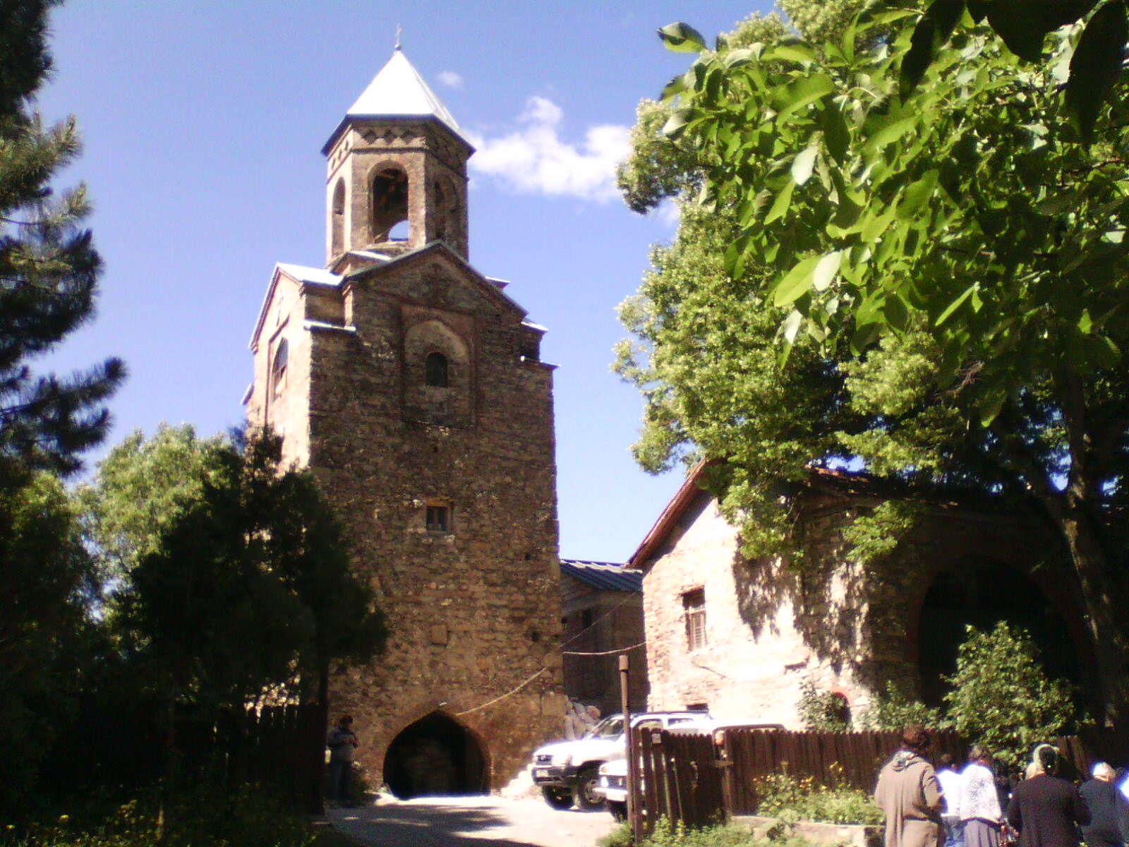 მონასტრის კოშკი. ფასადი ჩრდილოეთის მხარეს.